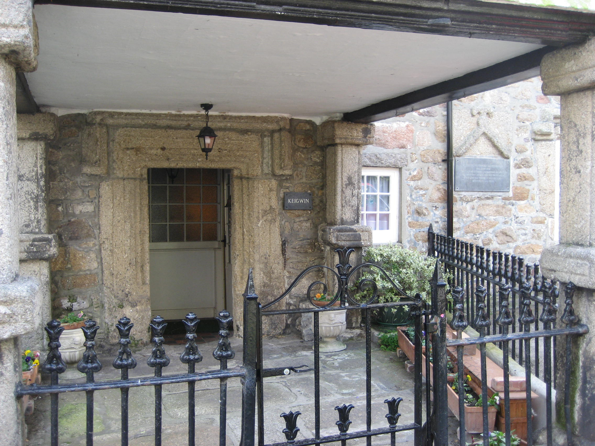 Keigwin Little Keigwin